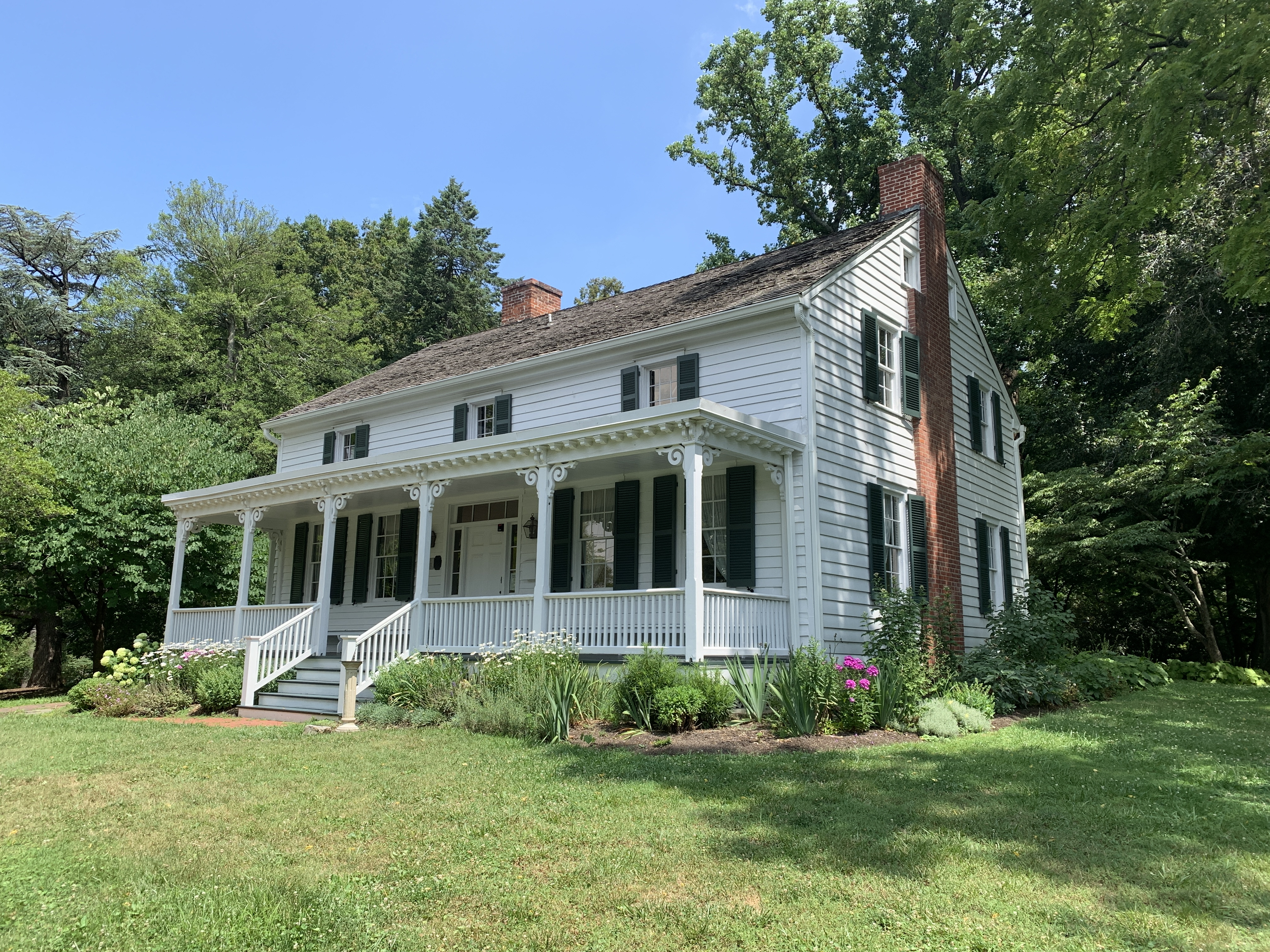 Cherry Hill Farm, Falls Church, Virginia